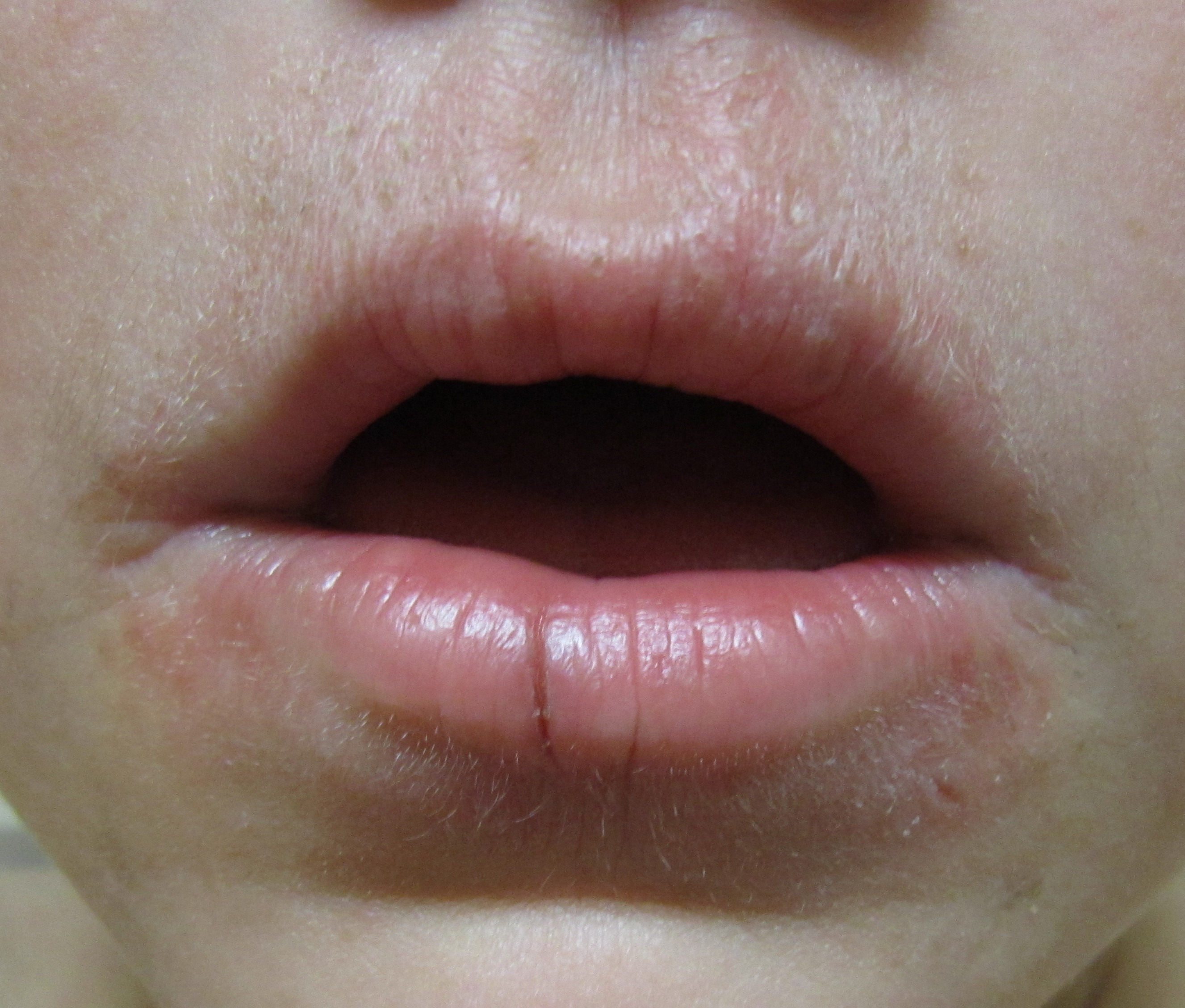 Perioral Dermatitis of a young male with a history of licking his lips.